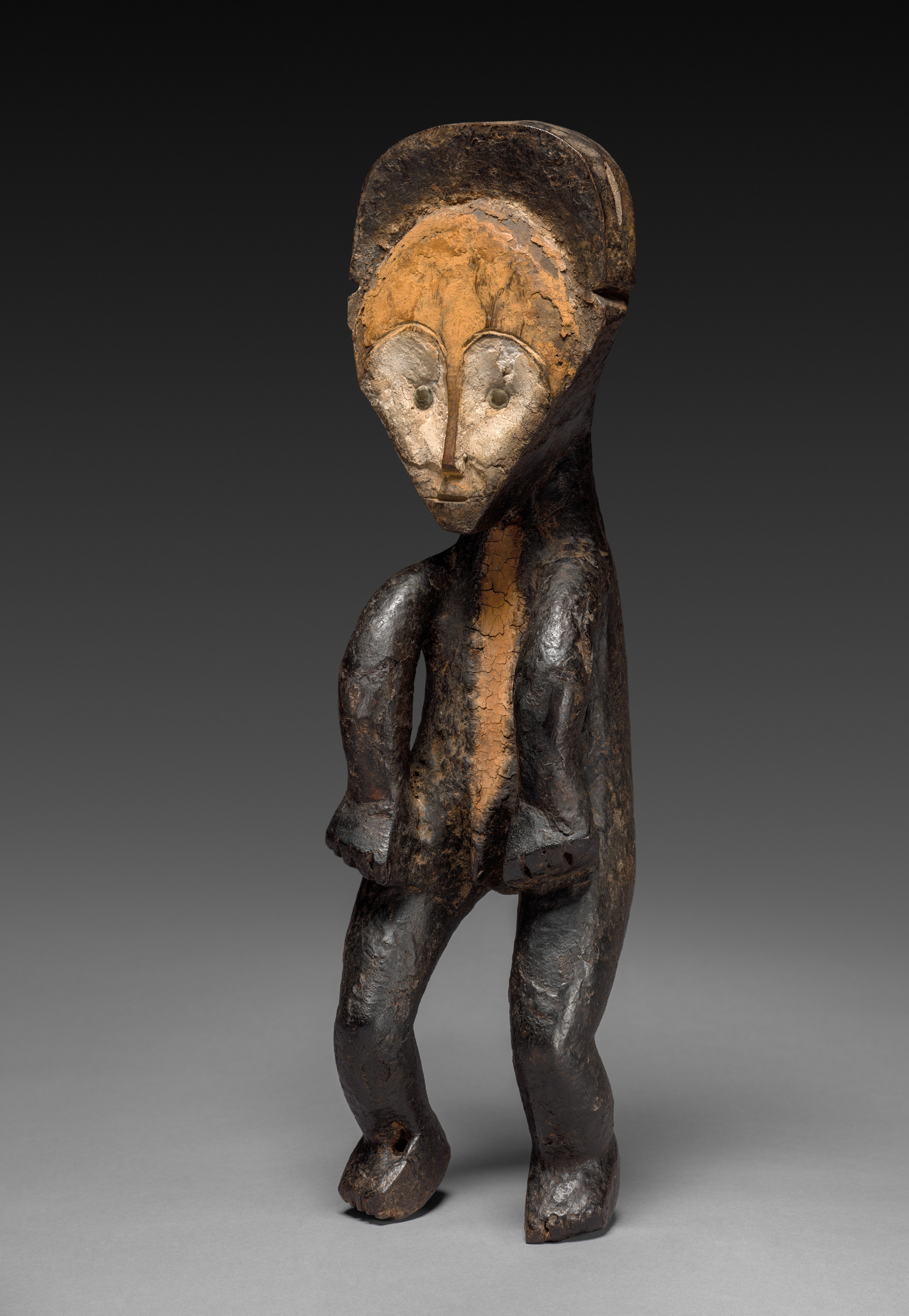 Figures such as this, known as ofika, were central to the initiation practices and the enforcement of laws among the all-male Lilwa association, a hierarchical organization that served educational, judicial, political, economic, and ritual functions among the Mbole. Meant to instill a moral code and to act as a cautionary symbol during initiation for Lilwa novices, ofika figures are believed to represent criminals who were ritually hanged for transgressions against Lilwa laws. The figure’s encrusted surface imitates how members covered their bodies with a substance made of ashes and palm oil during burial rites.